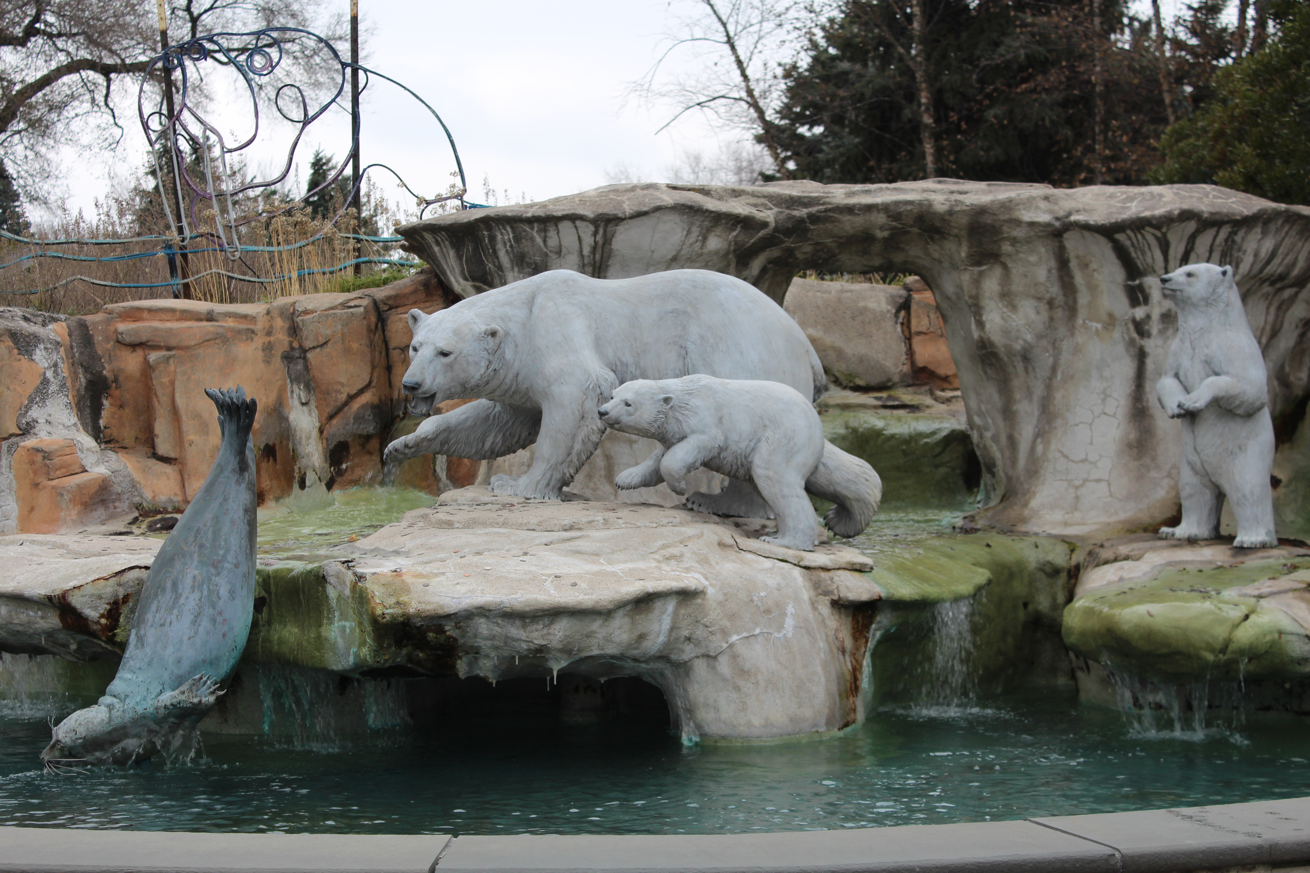 Fountain In the Arctic Encounter